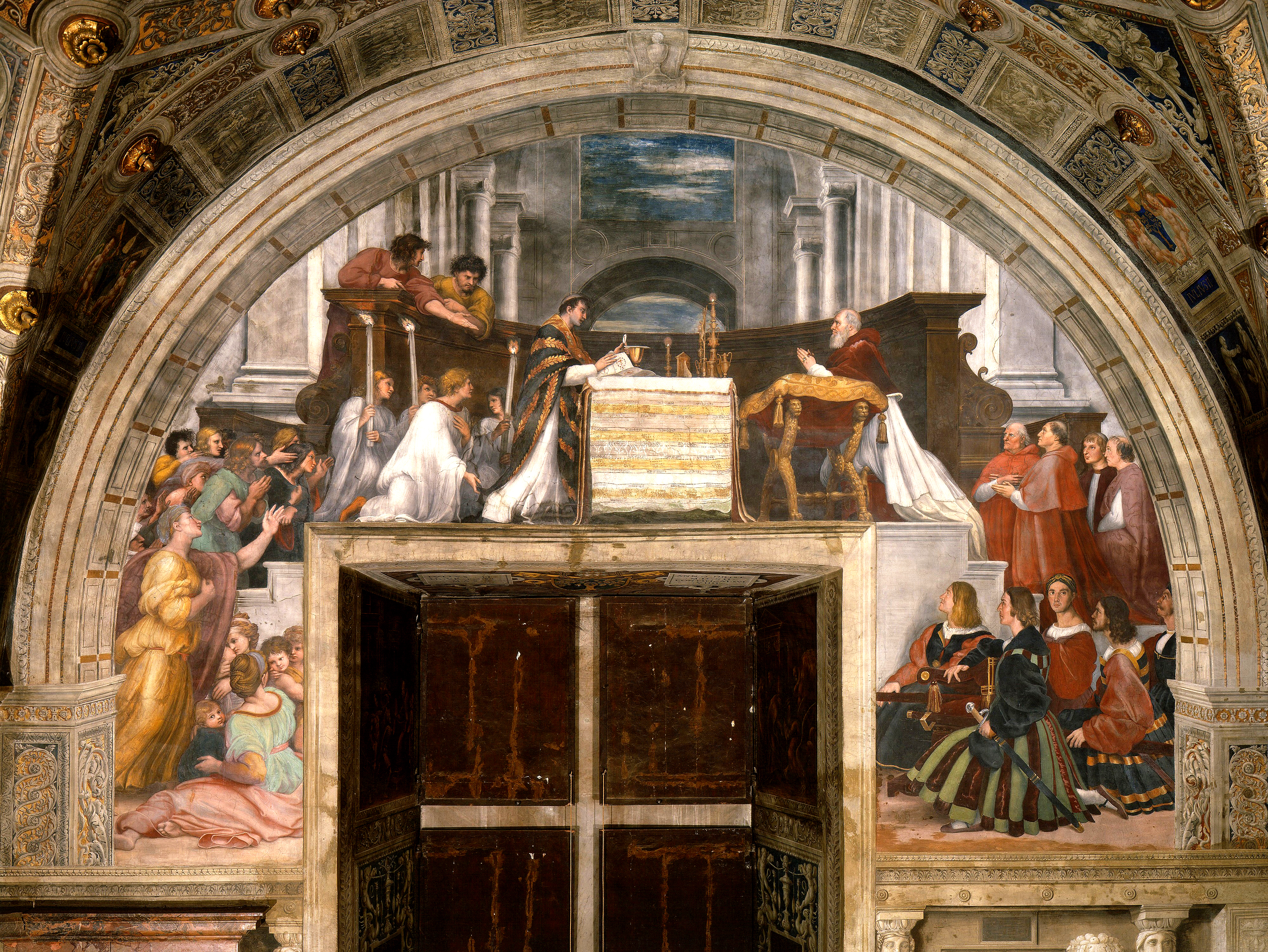 Raphael.